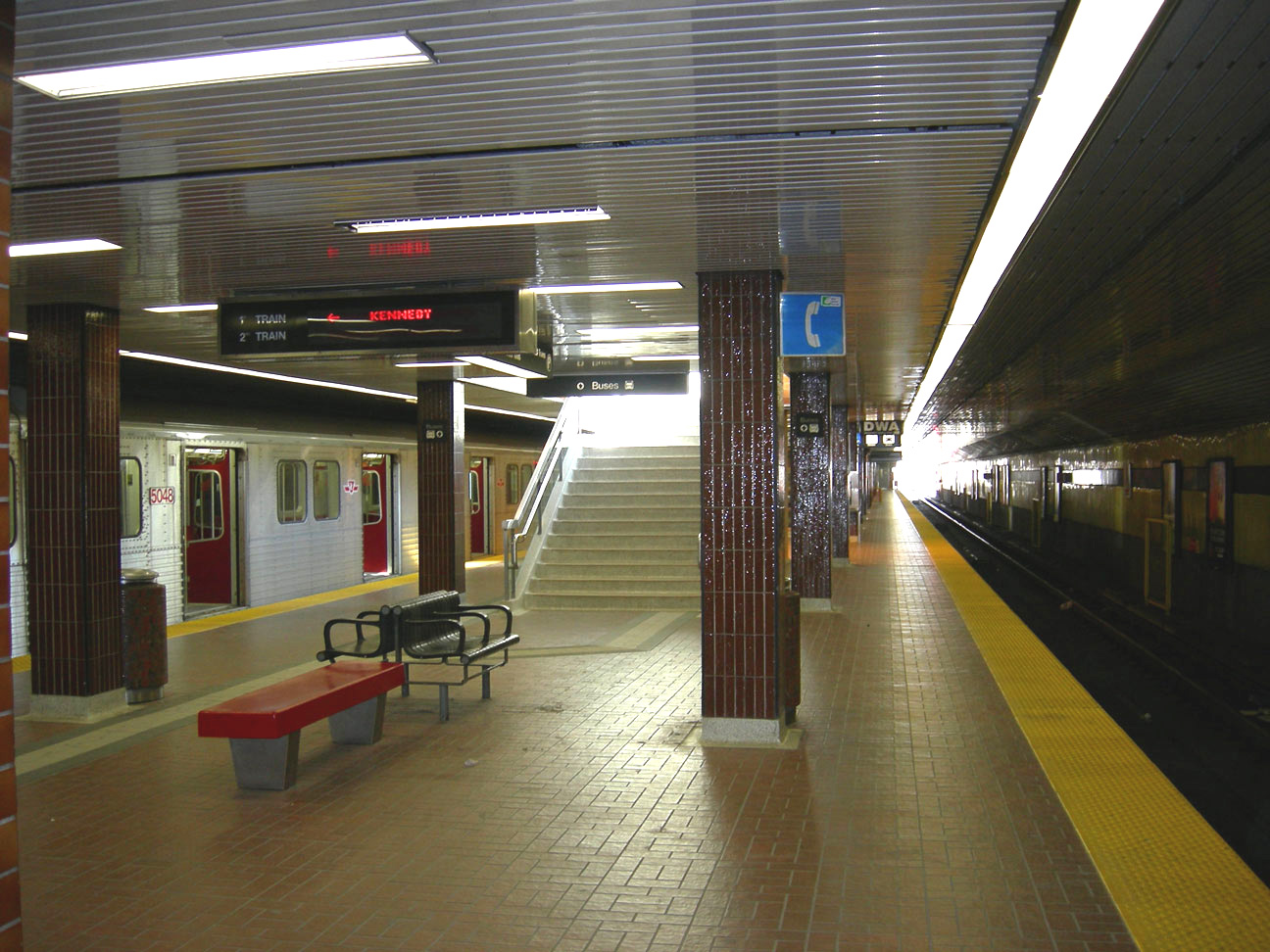 Picture taken by Kareeser. Picture of Kipling Subway Station with Eastbound train at left side of picture.